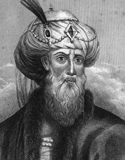 Engraving of Flavius Josephus from book